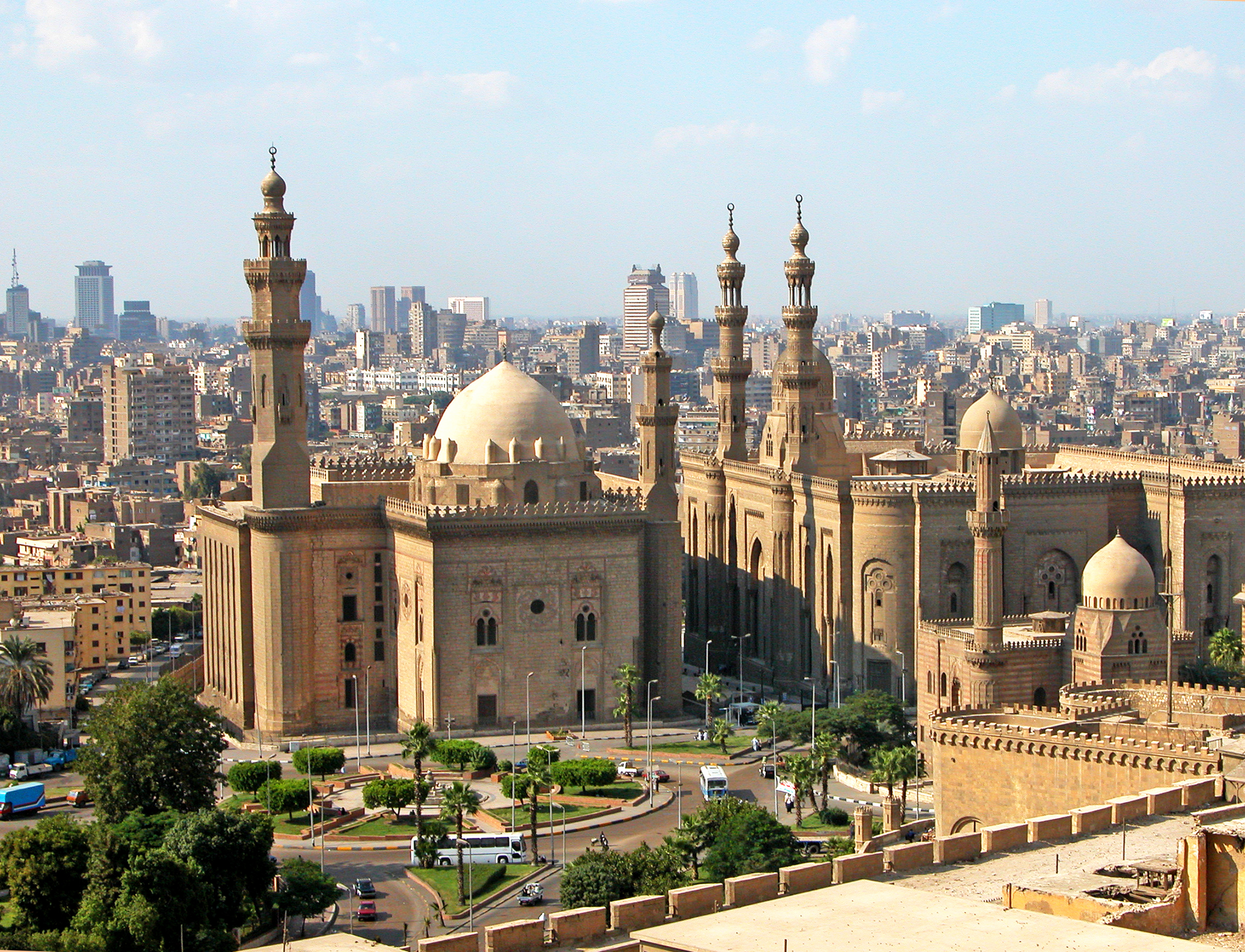 Sultan Hassan and Al Rifa’i Mosques seen from the Citadel. Cairo, Egypt